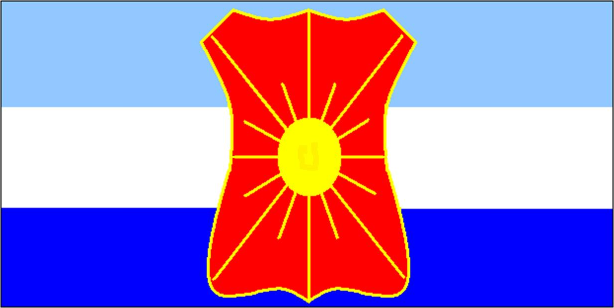 Zavalla,s flight , designed by Boldorini family, the light blue and white colors represent the argentinian flag, the red, white and blue the Santa Fe province´s flag. The horizontal lines reflect the "pampas" landscape, and the sun rays are realated to liberty, unity, respect and solidarity.